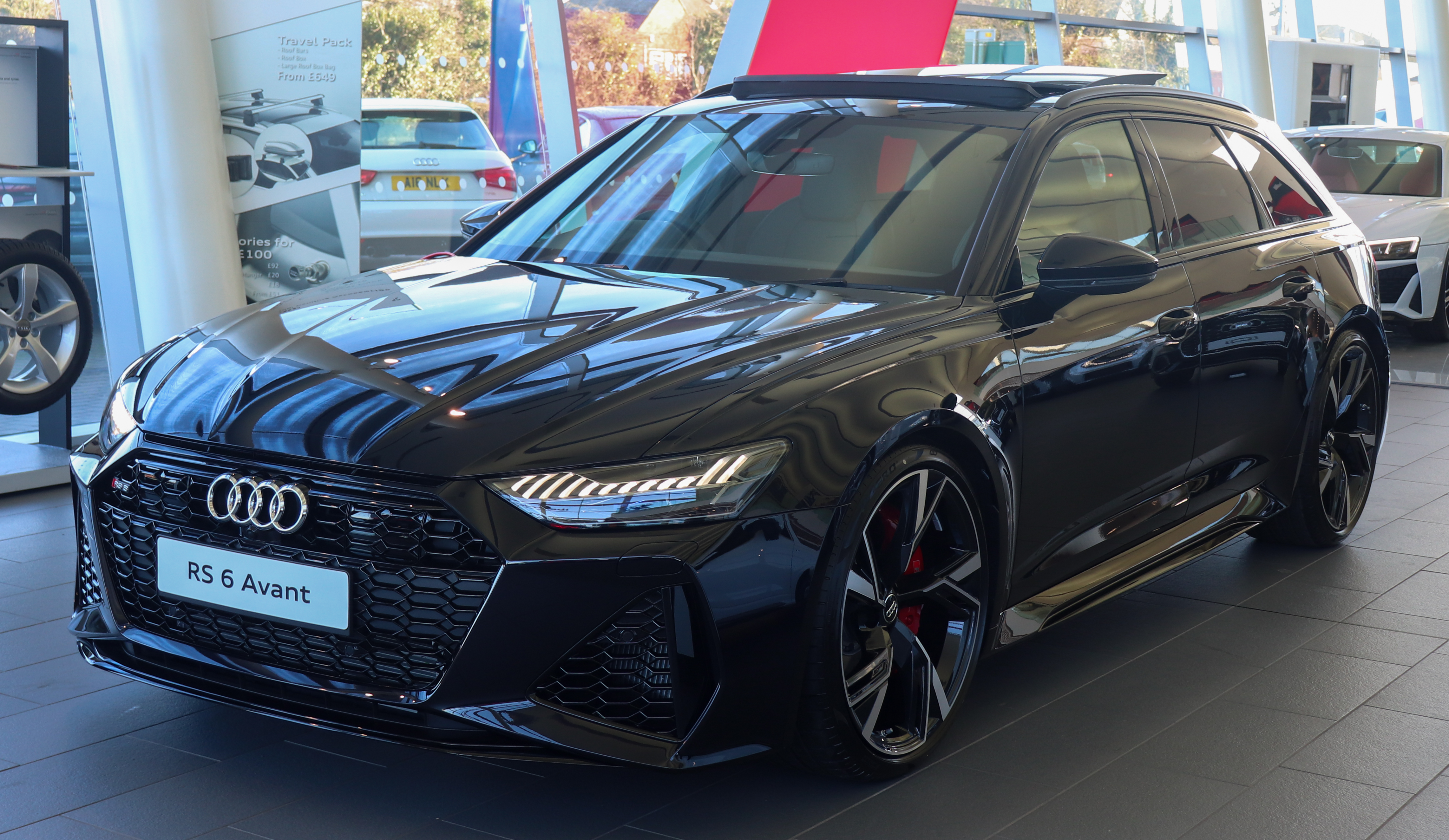 2019 Audi RS6 Avant 4.0 Front Taken in Listers Birmingham Audi, Shirley, Solihull